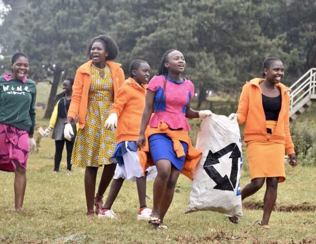 This is an image with the theme "Play" from: Kenya